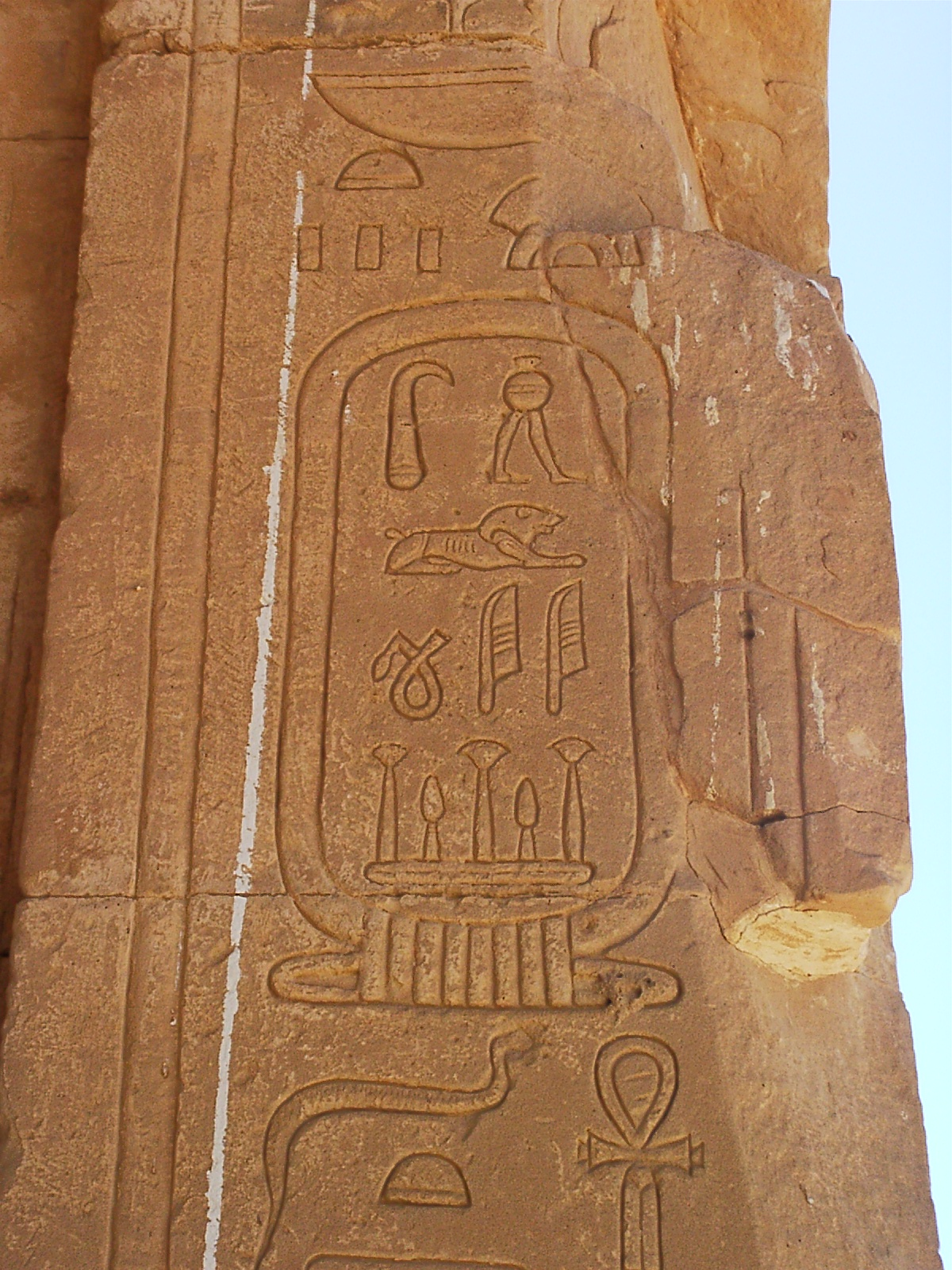 Darius I cartouche on the propylon of the Hibis Temple at Kharga Oasis.